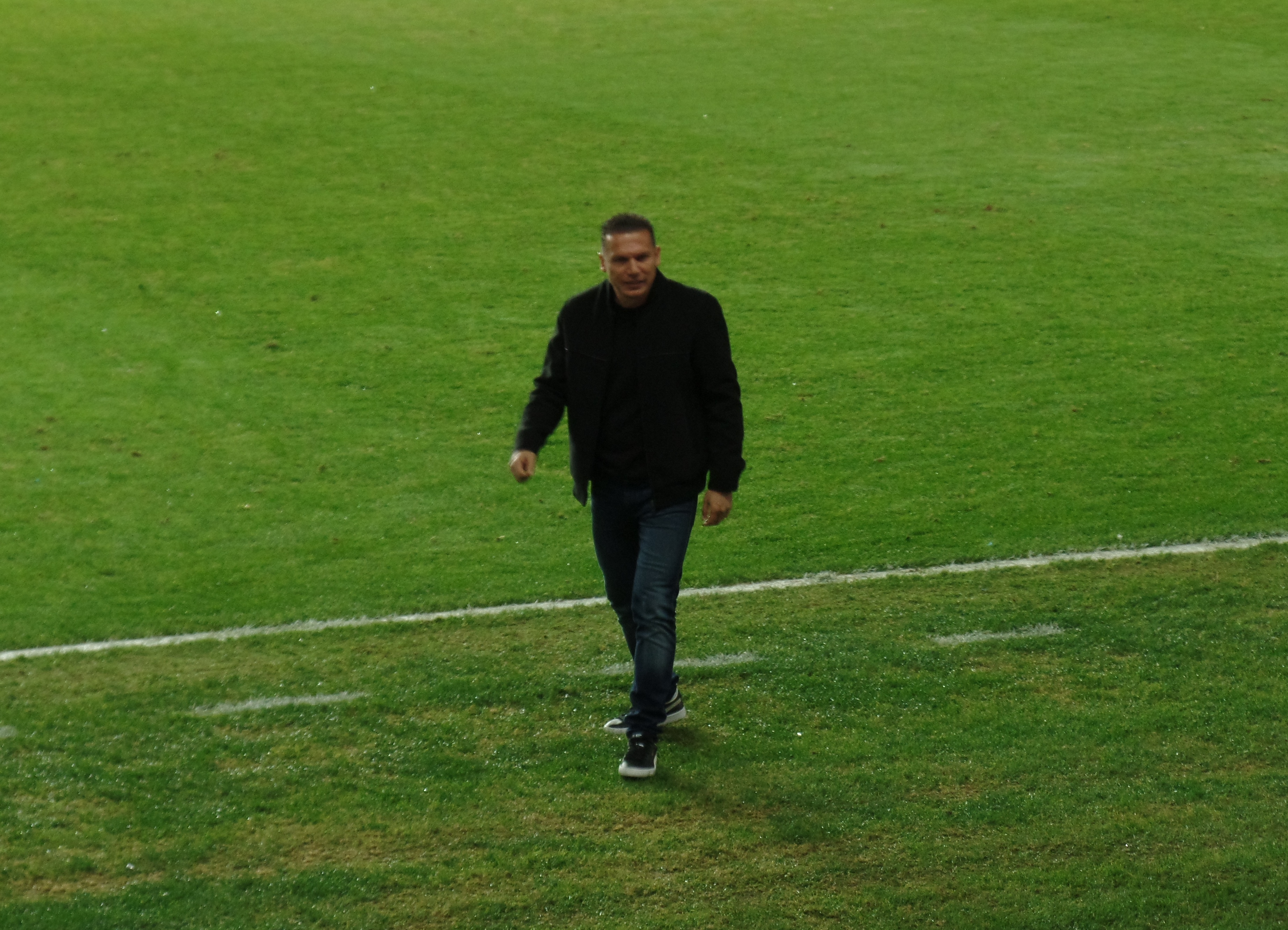 SAMSUNG CAMERA PICTURES